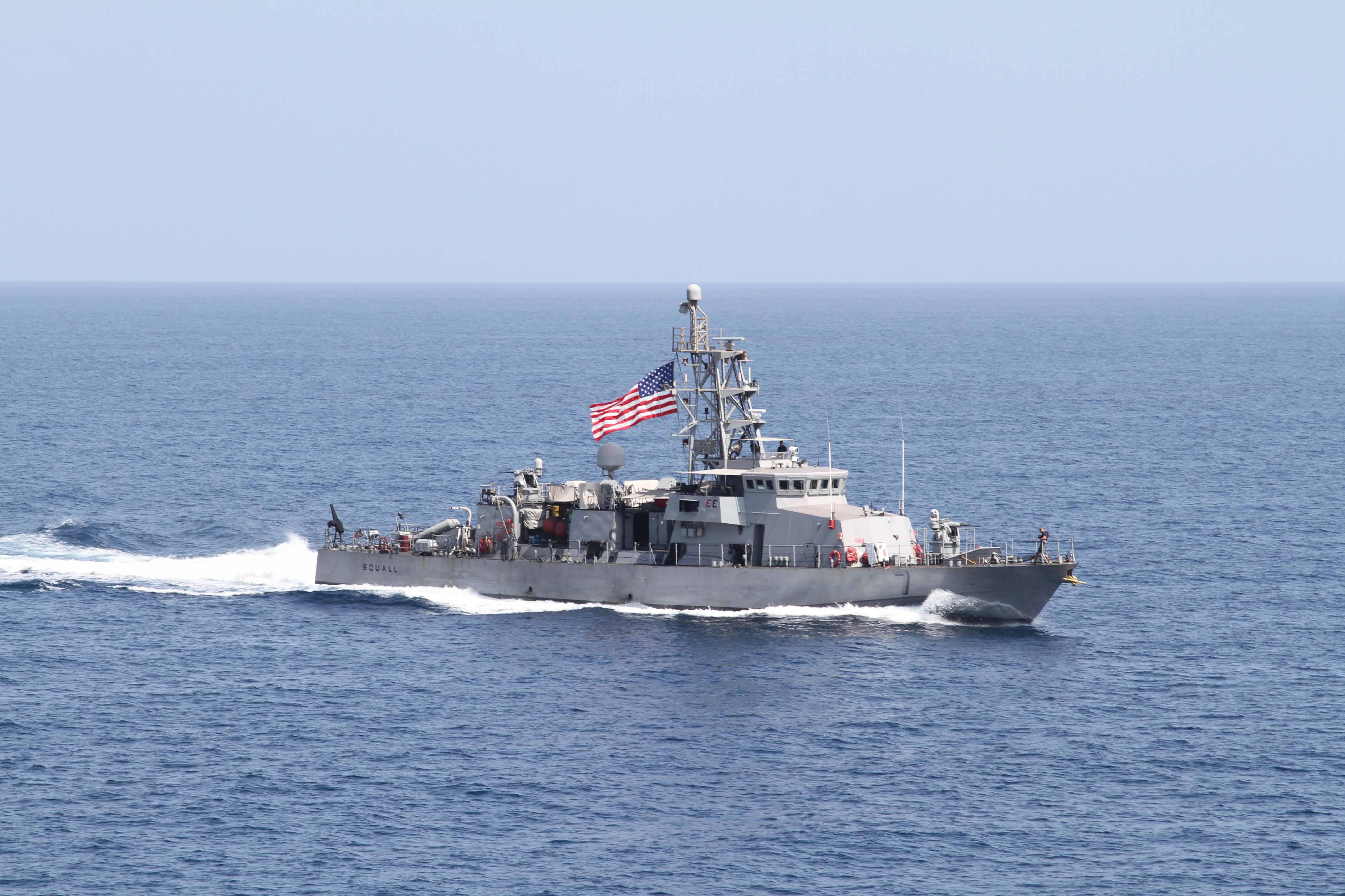 the U.S. Navy coastal patrol ship USS Squall (PC-7) conducts formation exercises in the Arabian Sea on 10 September 2016.